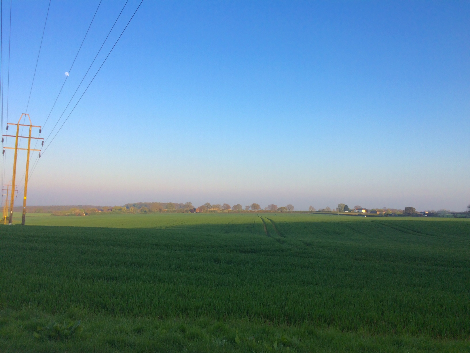 Tawney Common seen from road to Toot Hill from Theydon Mount